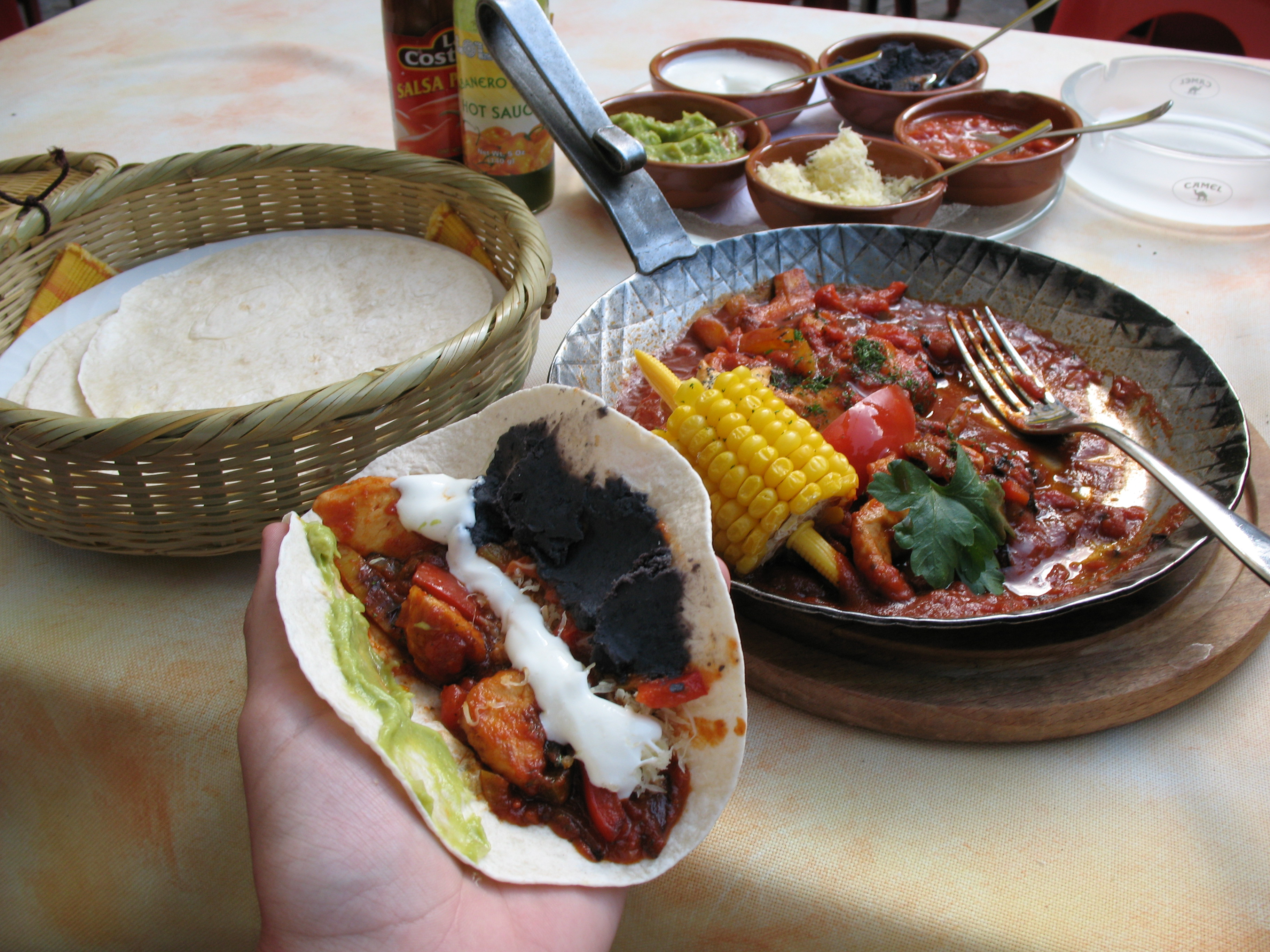 Fajitas from the Restaurant Weisshorn in Zermatt, Switzerland